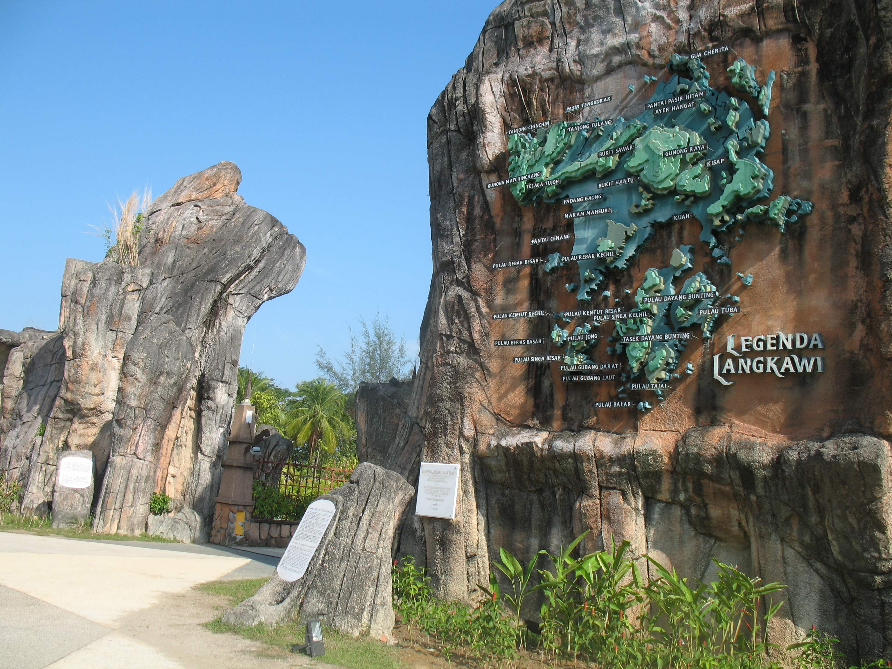 Entrance to the Legenda Langkawi park in Kuah, Langkawi